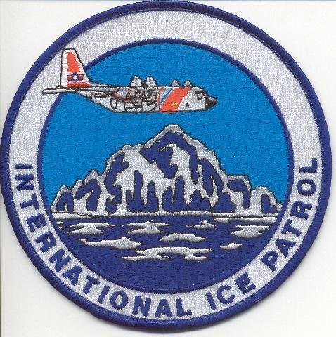 Emblem of the International Ice Patrol